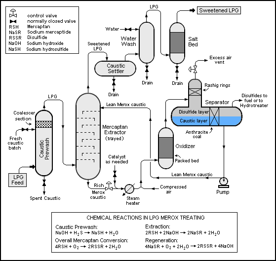 I drew this flow diagram myself using Microsoft's Paint program and uploaded it into the English Wikipedia a few days ago. I am now uploading it into Commons. - Mbeychok 22:21, 15 January 2007 (UTC) It is a diagram of a conventional Merox process plant for removing mercaptans from LPG (liquified petroleum gas such as propane or butane). - Mbeychok 00:07, 30 August 2007 (UTC)